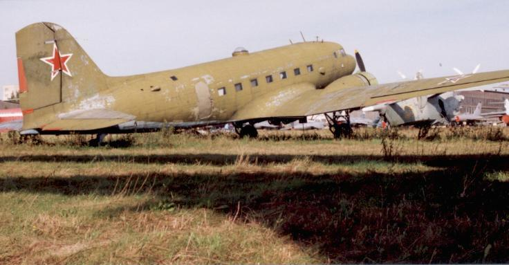 Lisunov Li-2 of Soviet Air Force at Monino, Moscow